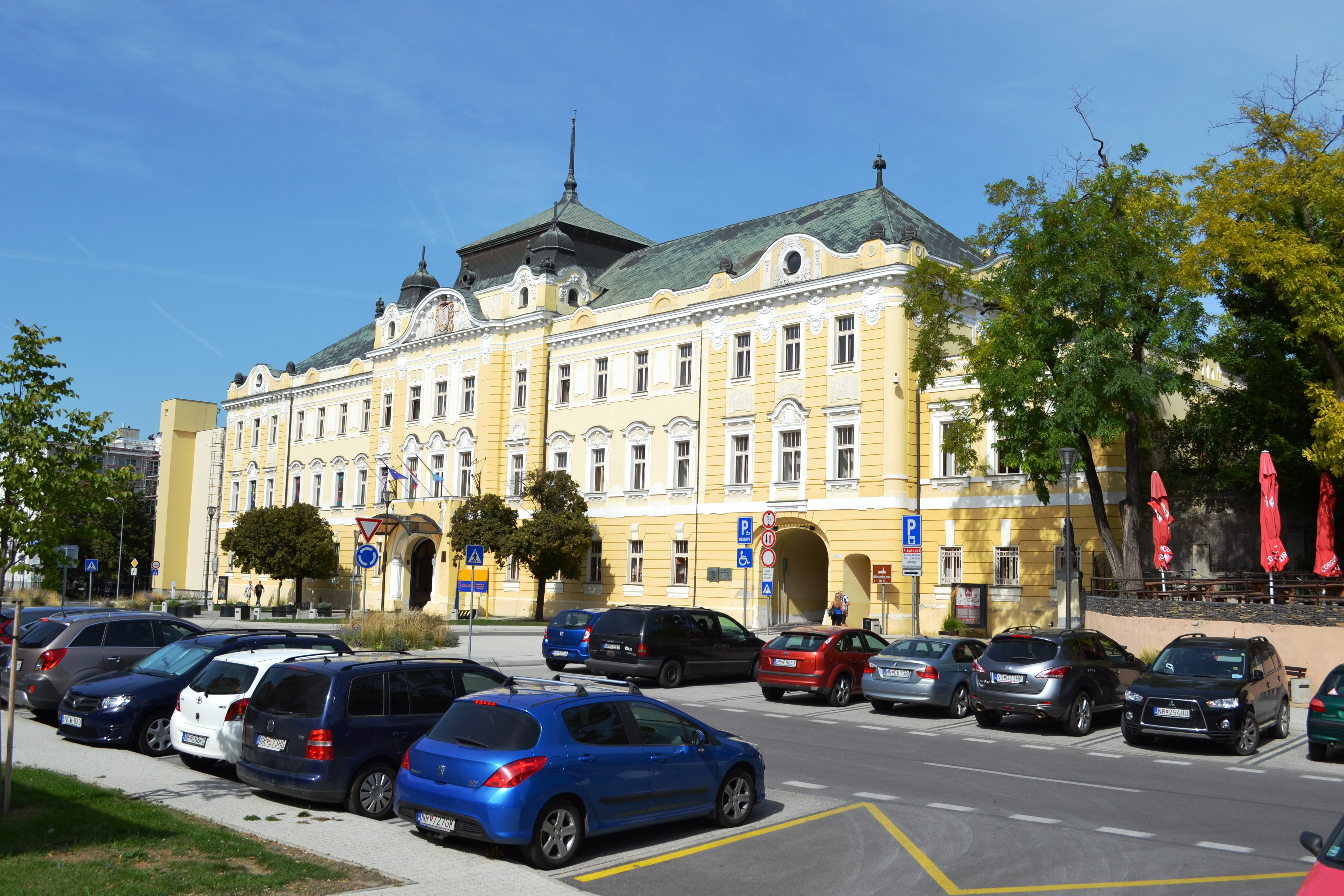 Nitra Gallery in NitraSlovenčina: Nitrianska galéria v Nitre